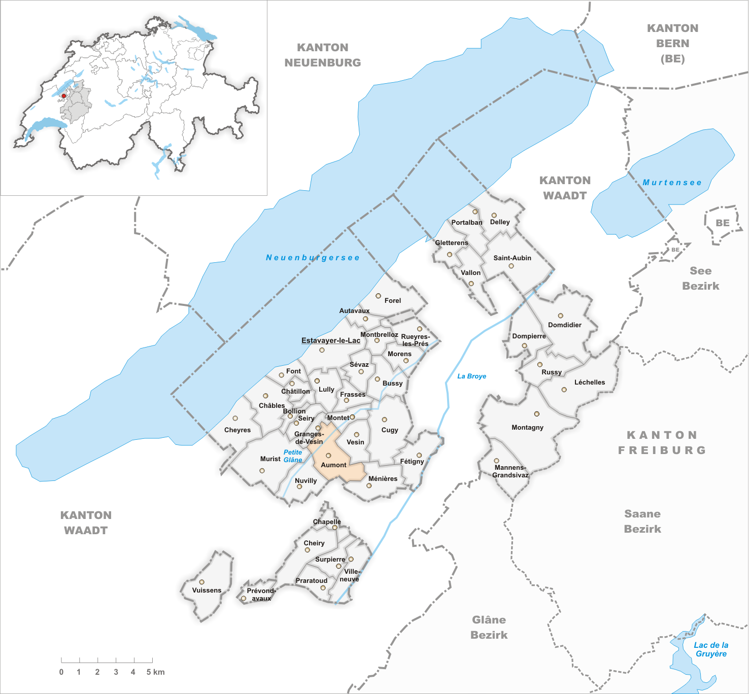 Municipality Aumont Artist: Tschubby